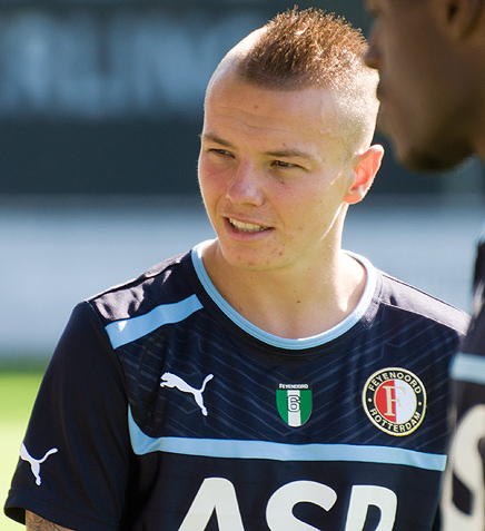 Jordy Clasie during a training with Feyenoord.